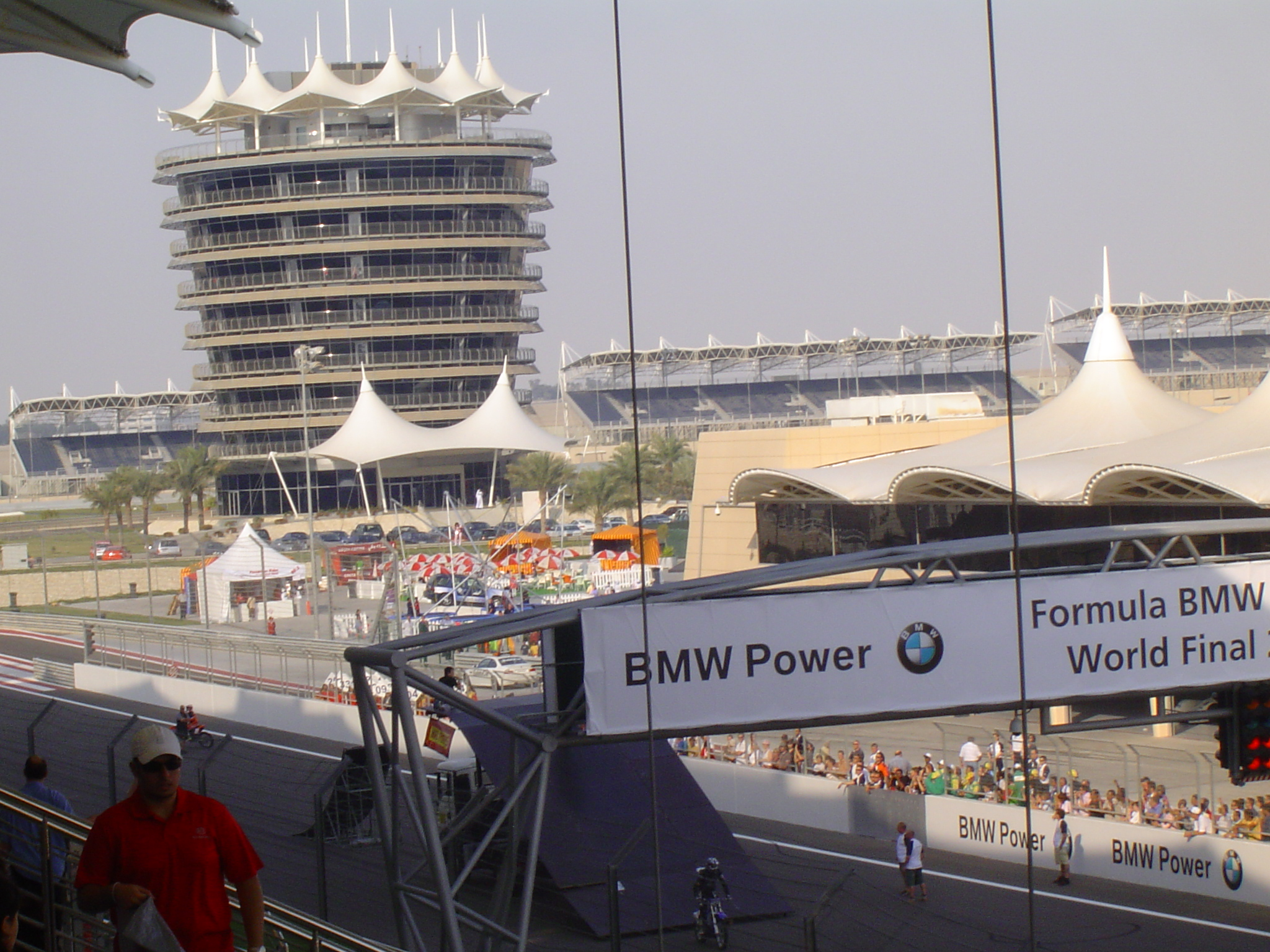 the 3 amigos owho pulled off some crazy stunts in mid-air at the bahrain international circuit before the start of the F-BMW Final race in Bahrain! Some real crazy shit - but extremely awesome!